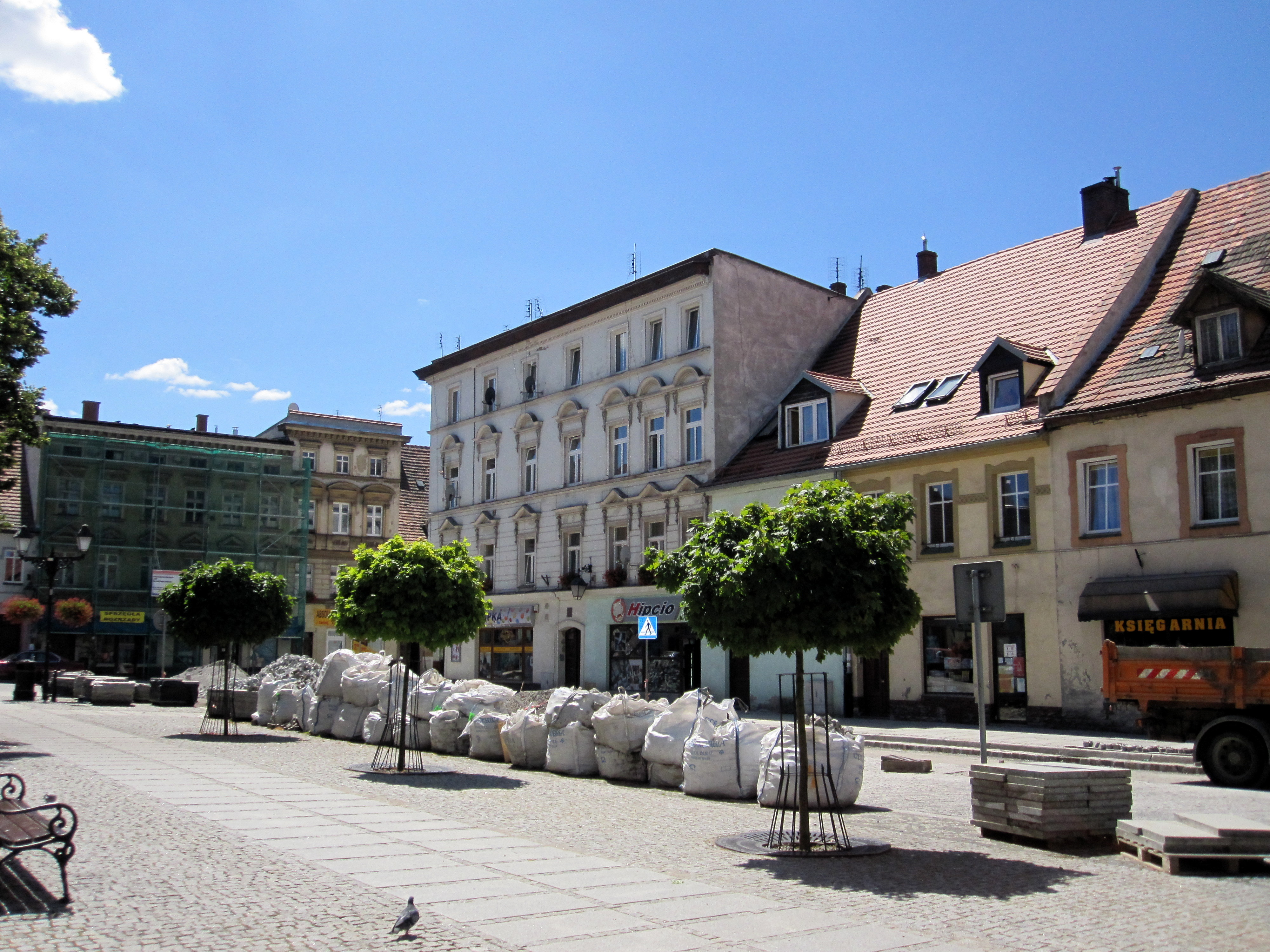 Market Square in Świebodzice